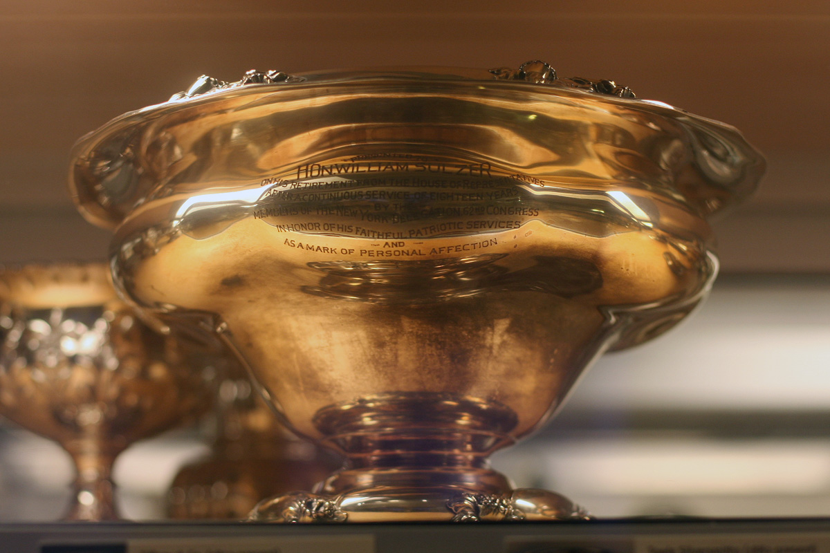 Towle Silversmiths, Punch bowl, ca. 1912. Silver, 9 1/4 x 15 1/2 in. ( 23.5 x 39.4 cm ). New-York Historical Society, Gift of the Honorable William Sulzer, 1934.39. Wikipedia Loves Art at the New-York Historical Society This photo of item # 1934.39 at the New-York Historical Society was contributed under the team name "shooting_brooklyn" as part of the Wikipedia Loves Art project in February 2009. New-York Historical Society The original photograph on Flickr was taken by shooting brooklyn—please add a comment to the original Flickr page whenever a use has been made on Wikipedia or another project. Project galleries on Flickr: this institution, this team